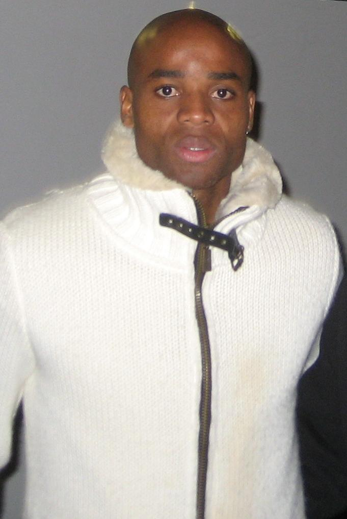 Alain Masudi posing for a picture after a football match in Haifa, Israel